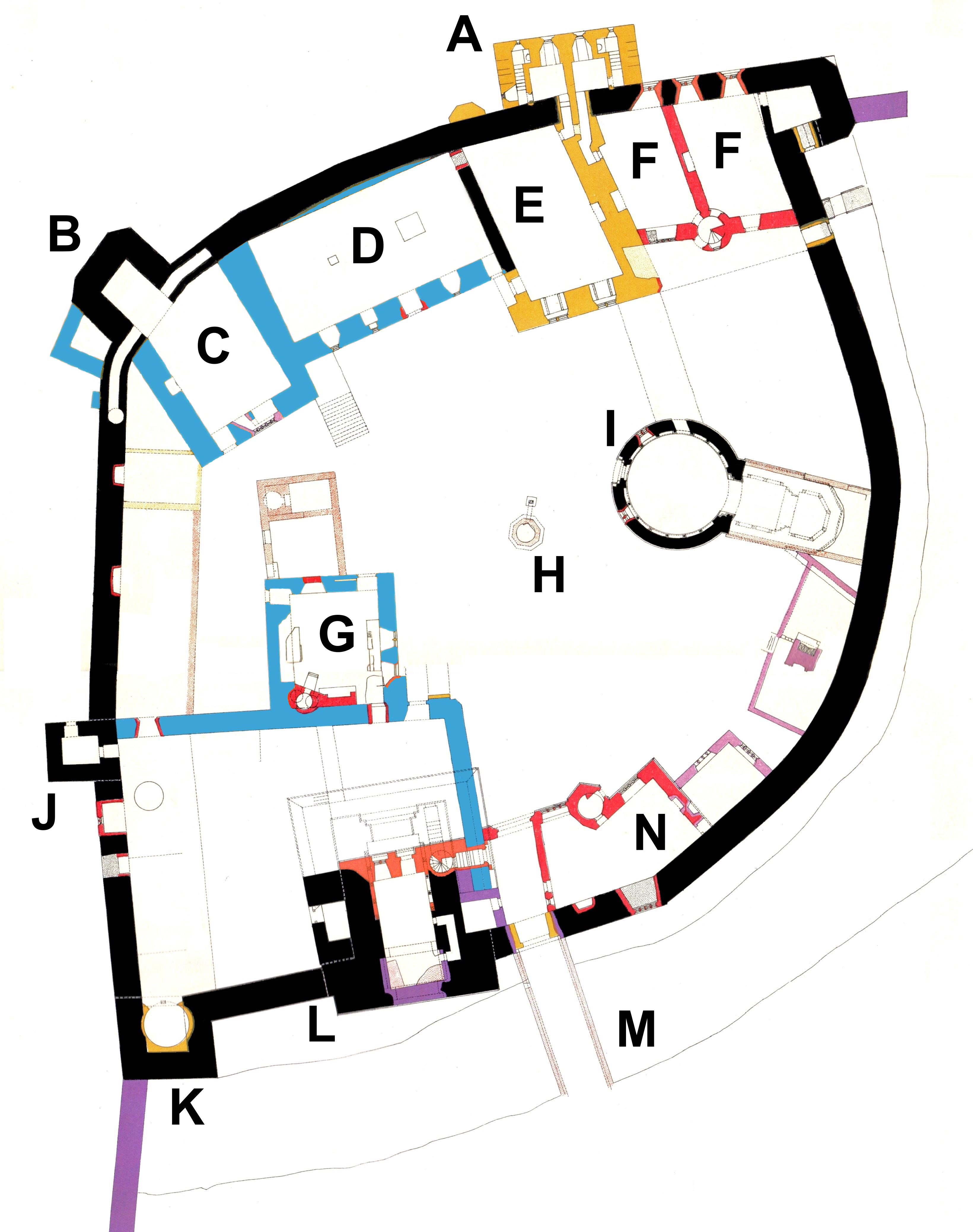 Map of the Inner Courtyard of Ludlow Castle; cleaned up and labelled by Hchc2009